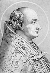 Pope Leo III